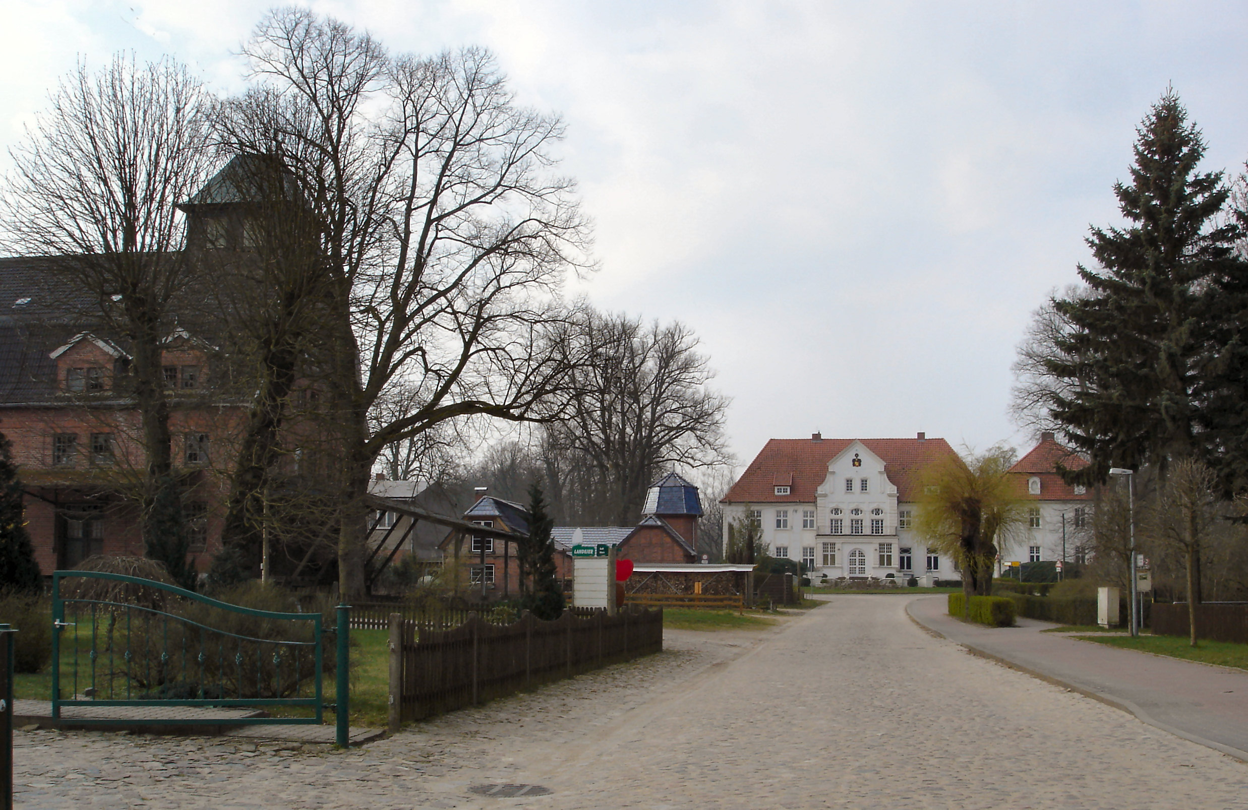 Manor house at Badow manor, Schildetal, Mecklenburg-West Pomerania, Germany